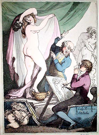 Caricature of Emma Hamilton as an artists' model, with reference to her famous "Attitudes" (poses in imitation of classical antiquity).